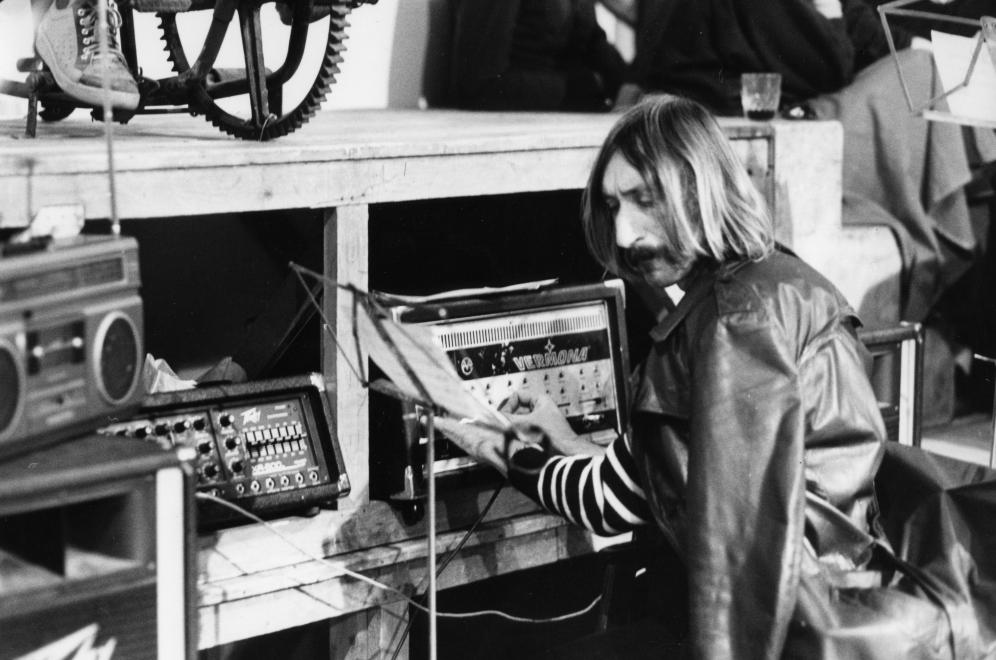 László Waszlavik ('Gazember') a Hungarian rocksinger